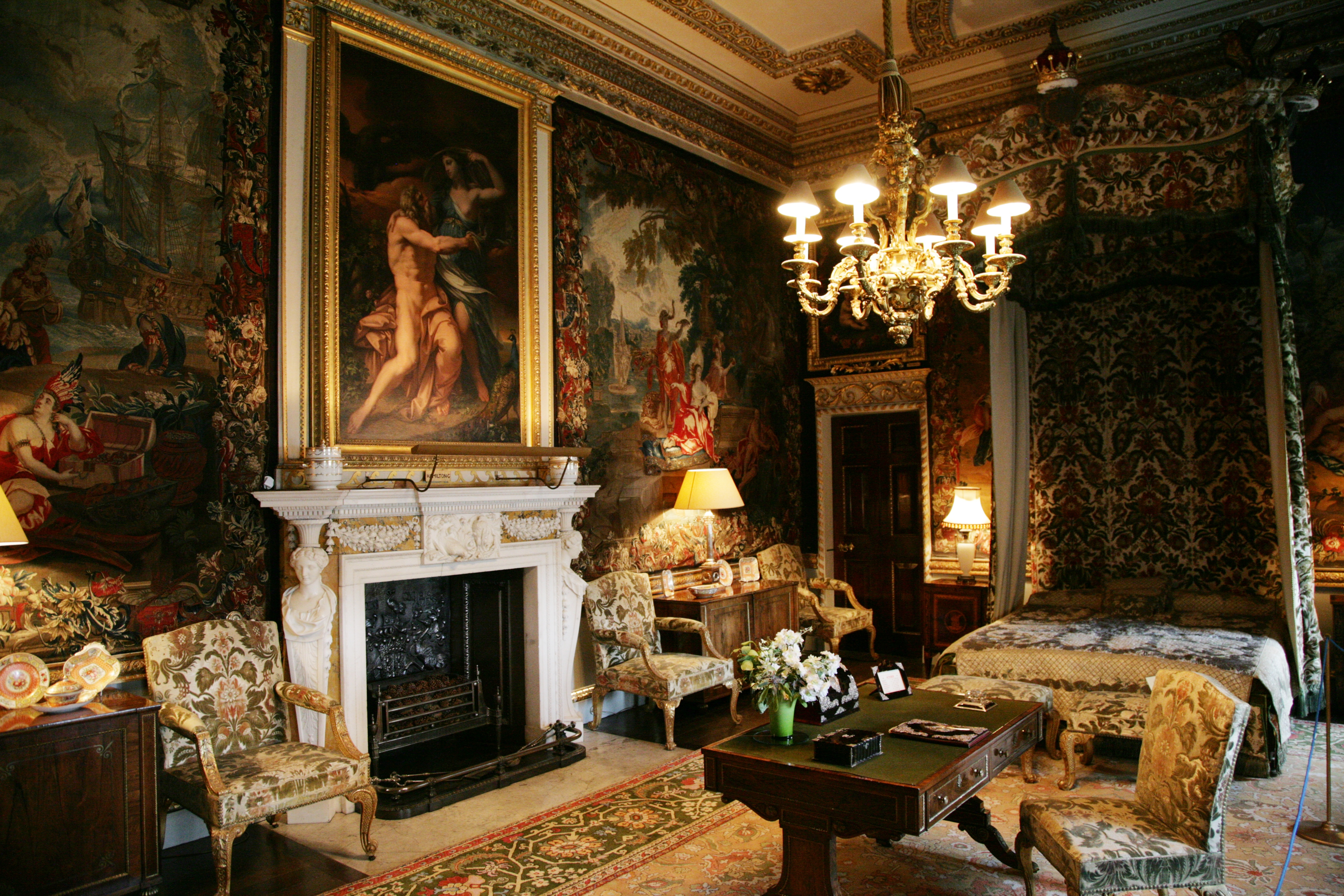 Holkham Hall in Norfolk. The Green State Bedroom